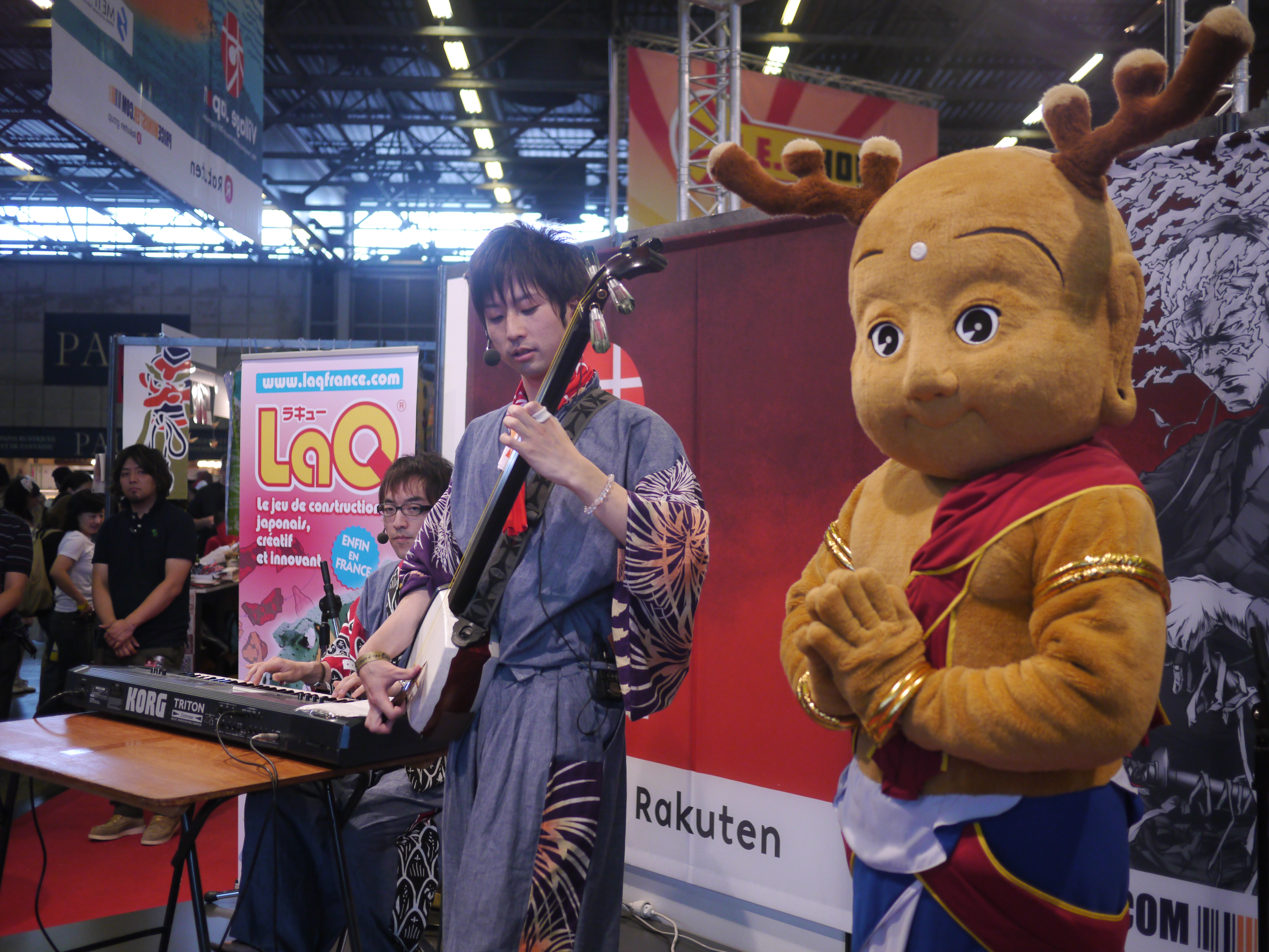 Japan Expo Festival, 12th impact